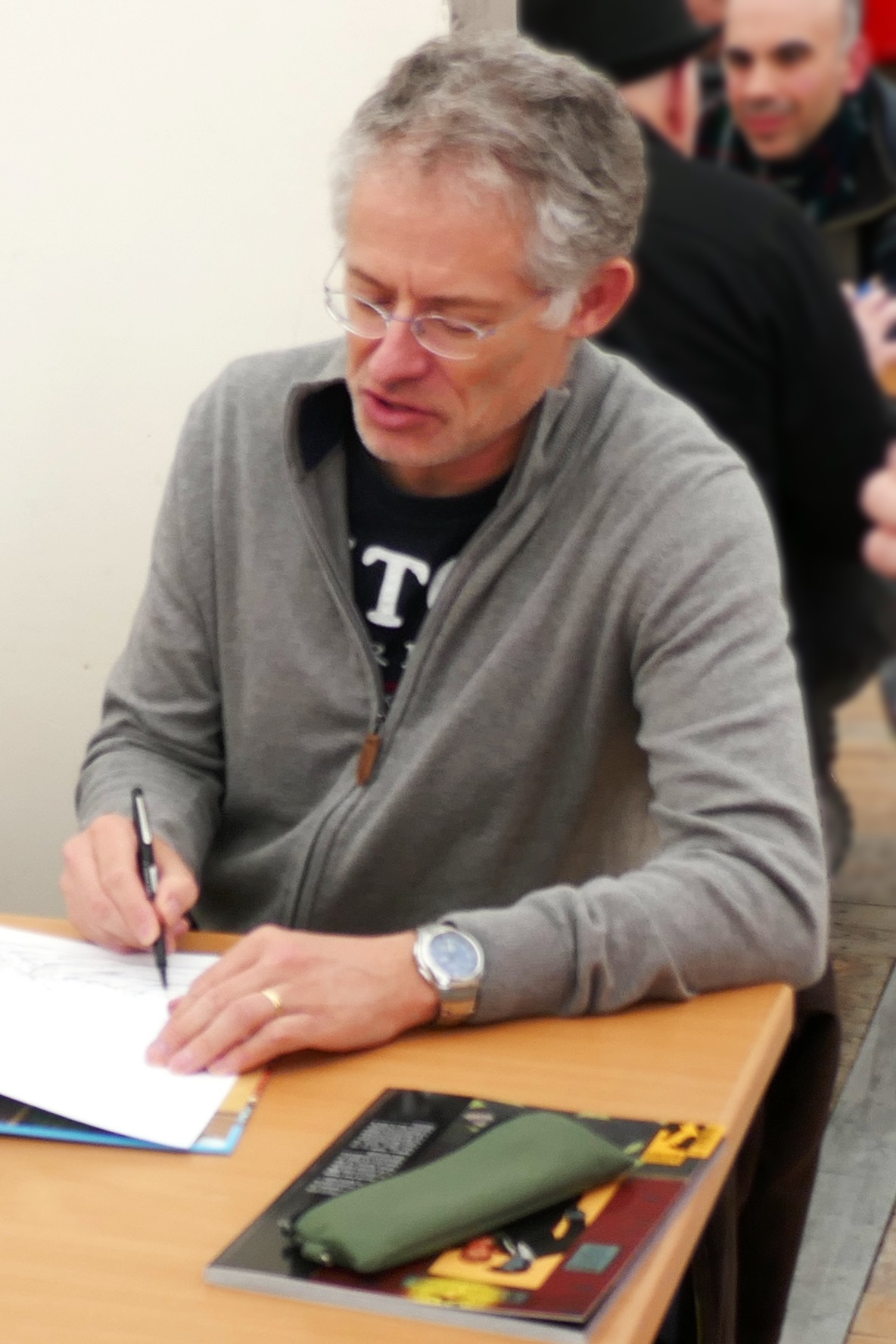 Laurent Parcelier at Festival de la BD de Buc 2016